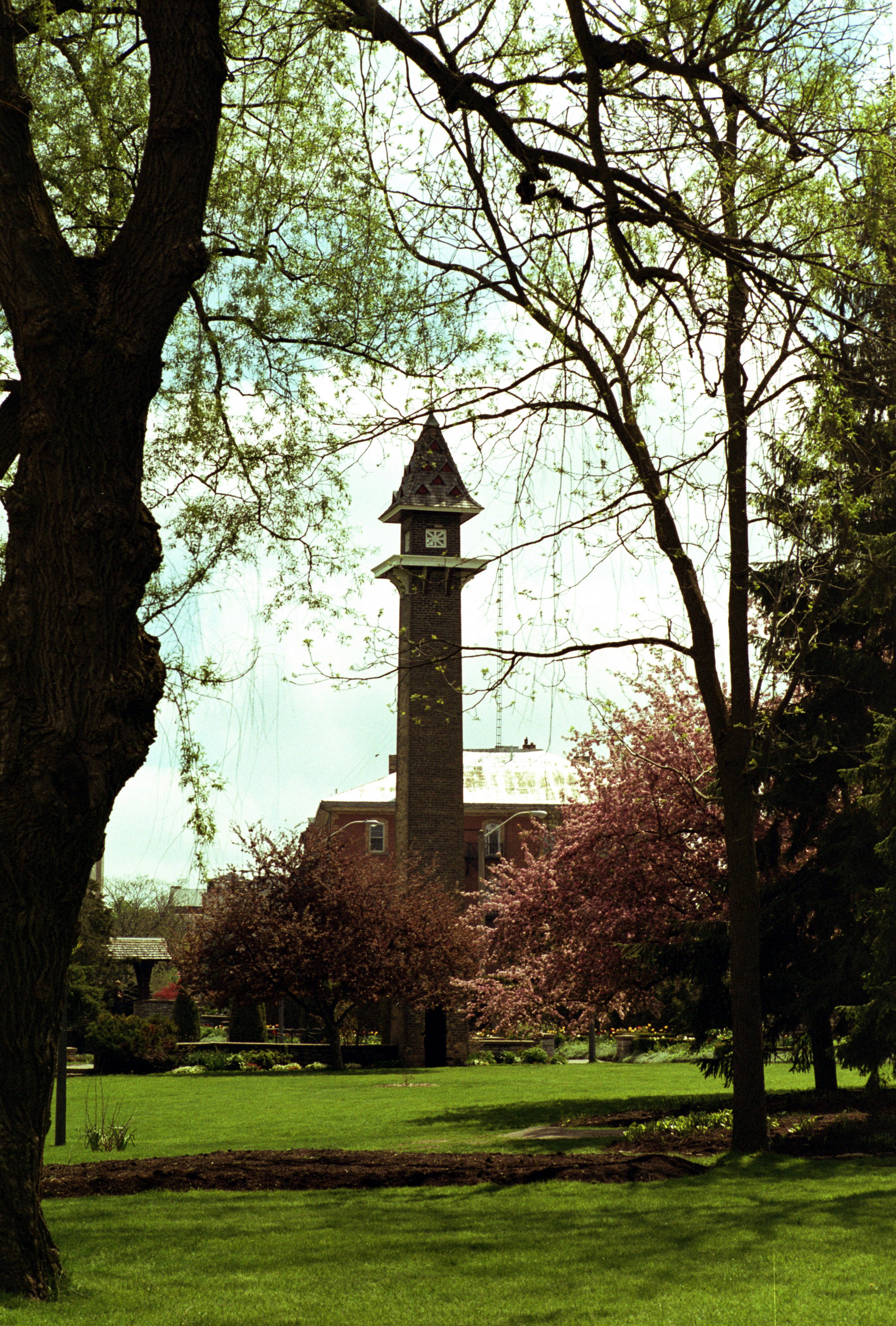 Shakespeare Garden， Stratford Ontario photography by Gisling